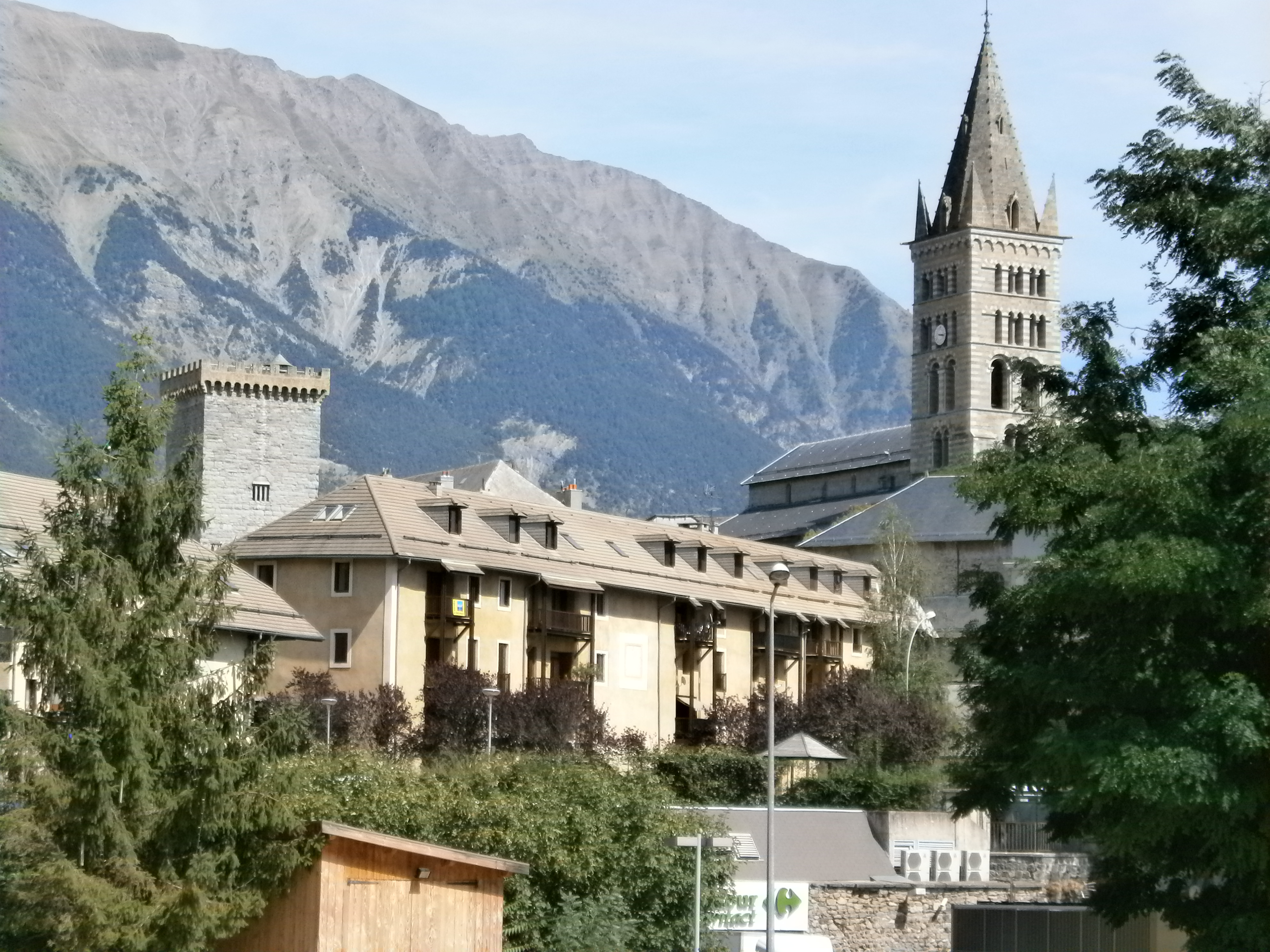 Embrun old town